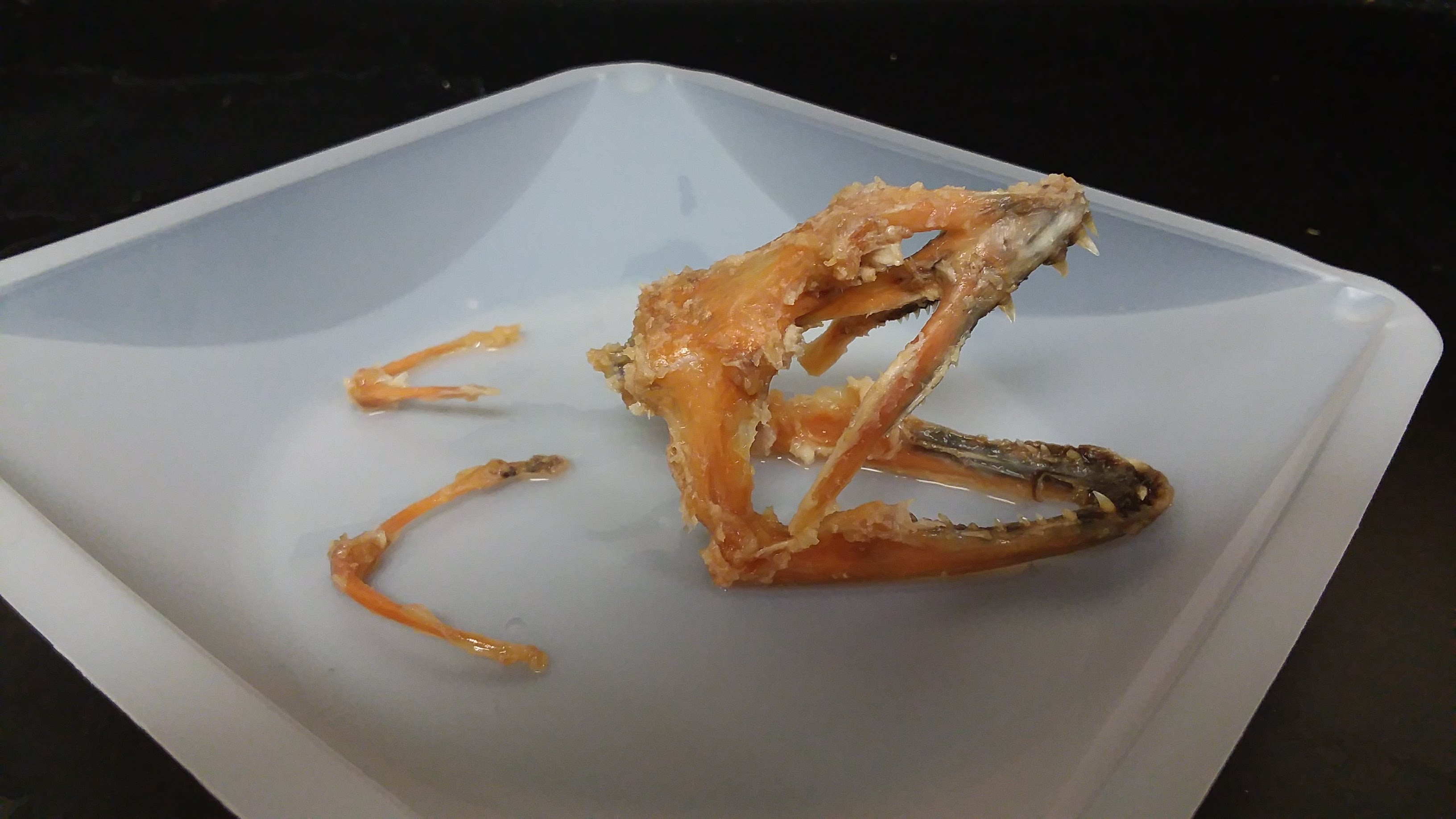 Skull and pharyngeal jaws of a Gymnothorax miliaris (spotted moray). Most flesh has been removed with tergazyme detergent. Photo taken 23 April, 2018. Specimen part of collection of Pacific Lutheran University.